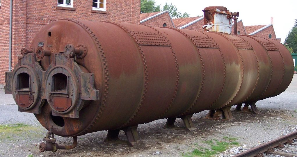 Steam boiler for a stationary steam engine in the textile museum Bocholt. own photo